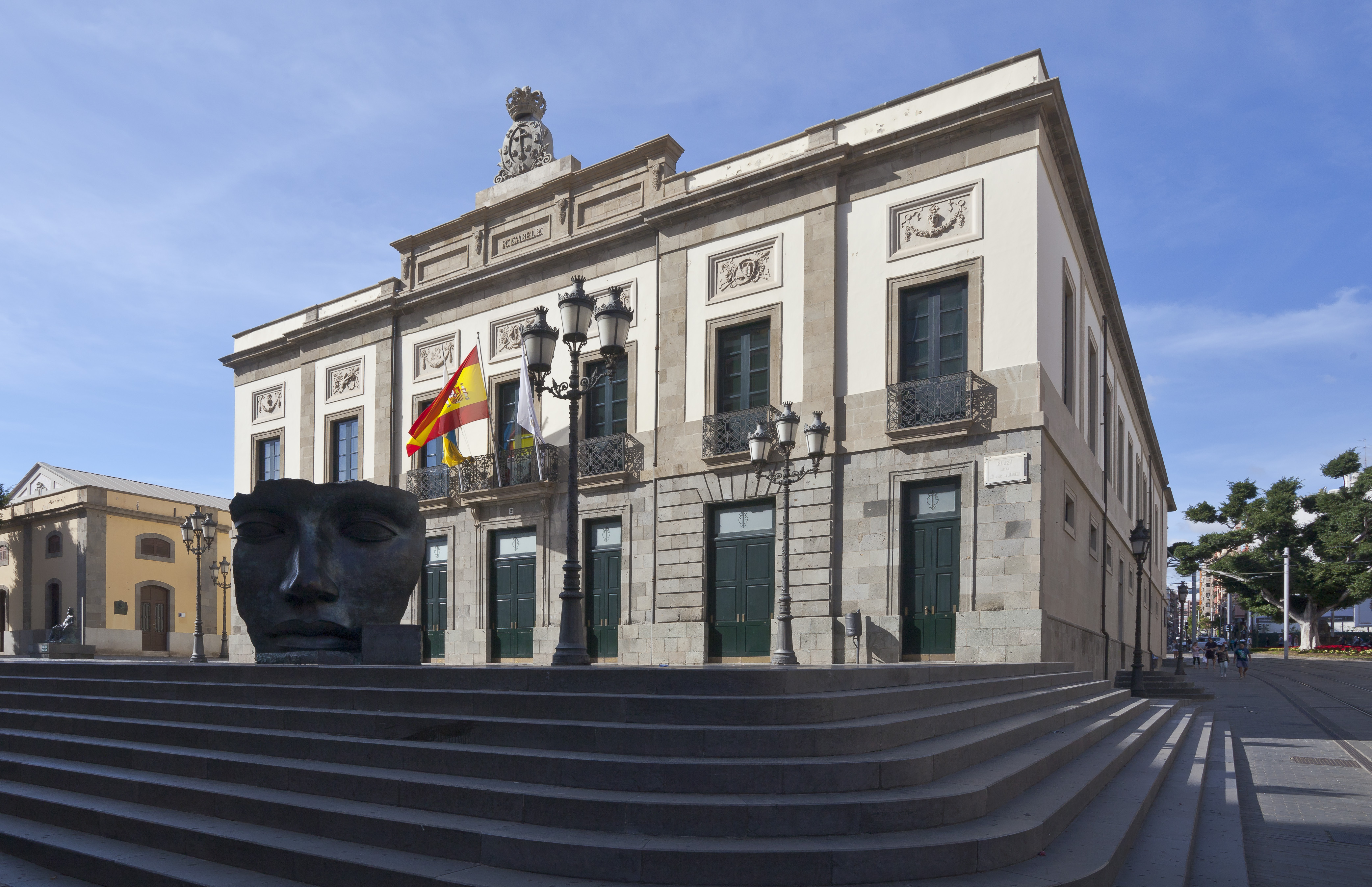 Guimerá Theater, Square Isla de Madeira, Santa Cruz de Tenerife, Spain